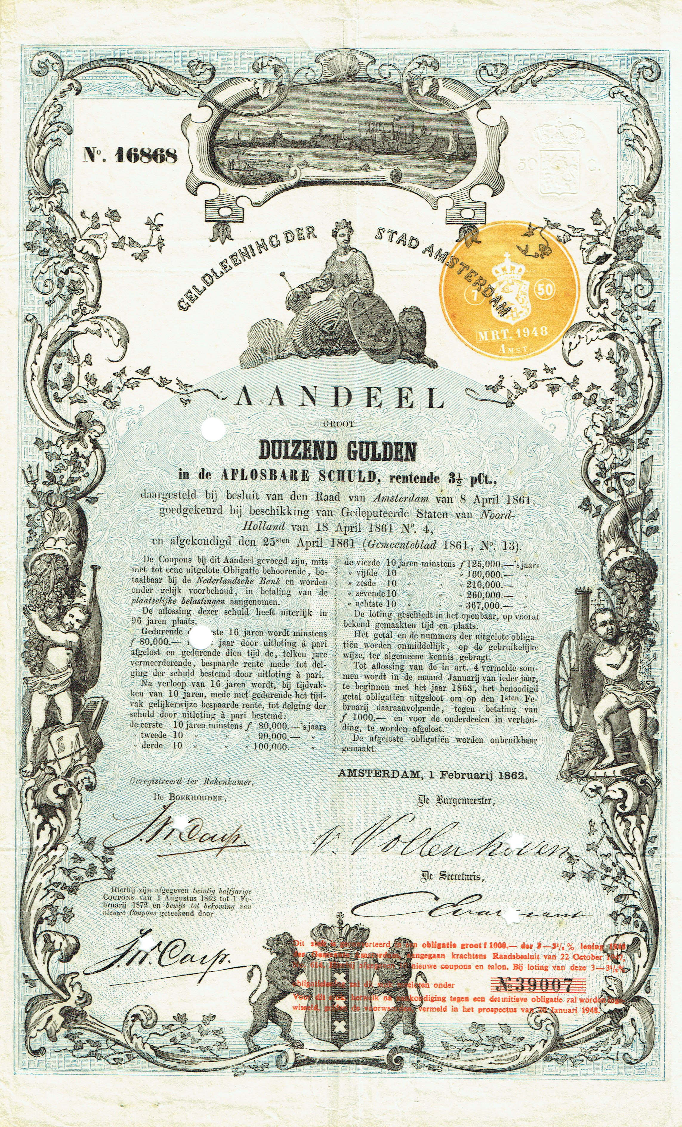 Bond of the City of Amsterdam, issued 1. February 1862